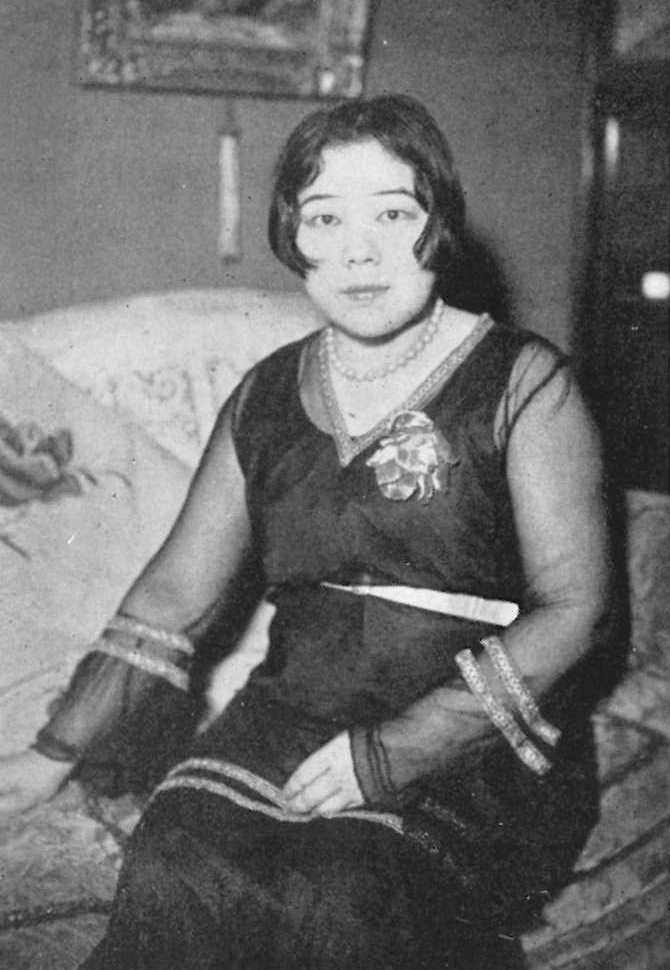 Kanoko Okamoto